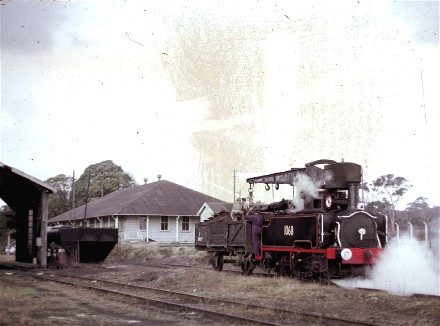 Crane locomotive 1068 at work at Cardiff Locomotive Workshops